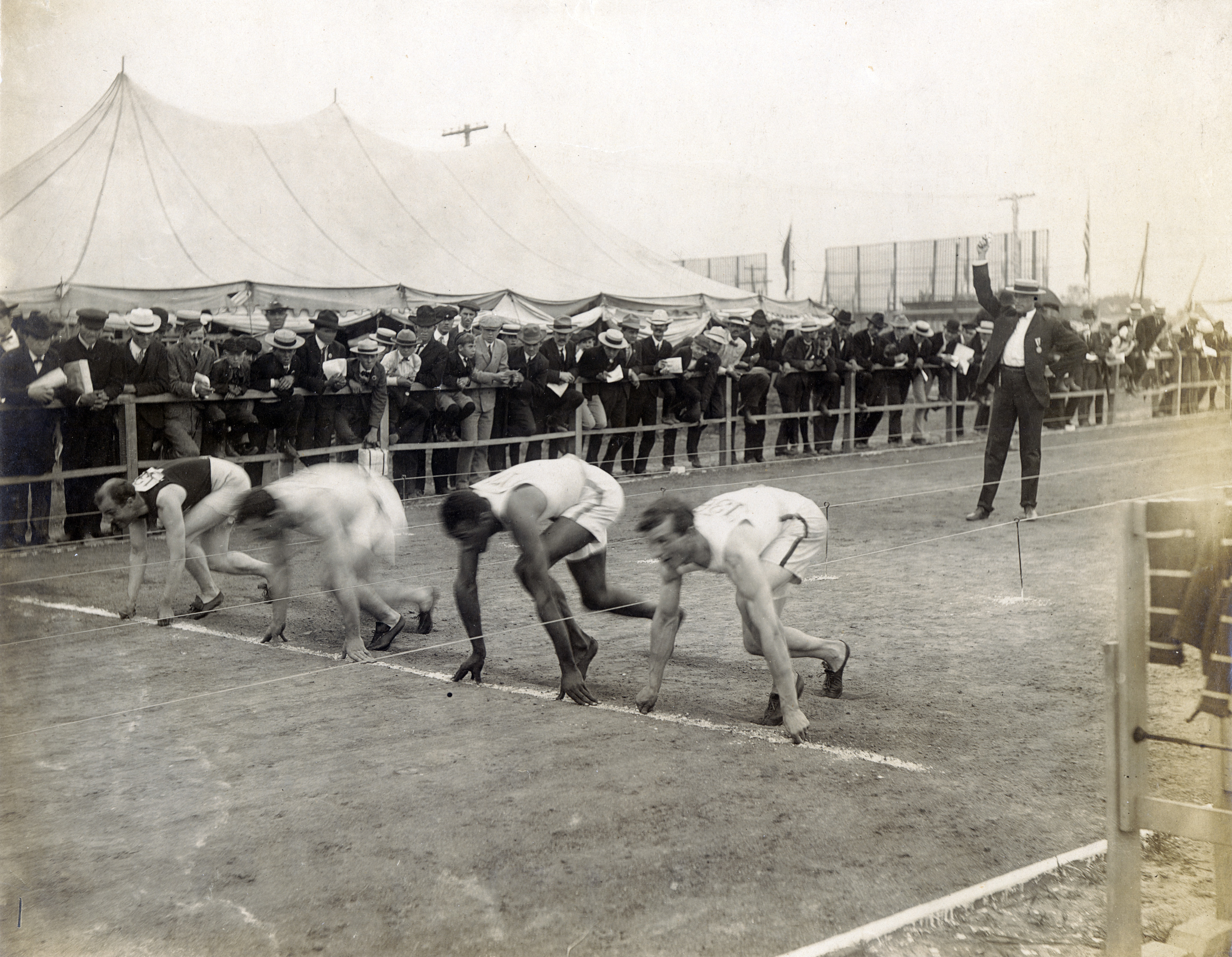 Four men at the starting line as starter pistol is about to be fired.Title: Start of the first heat of the 60-meter run at the 1904 Olympics.(Meyer Prinstein, George Poage, Clyde Blair, and William Hunter).